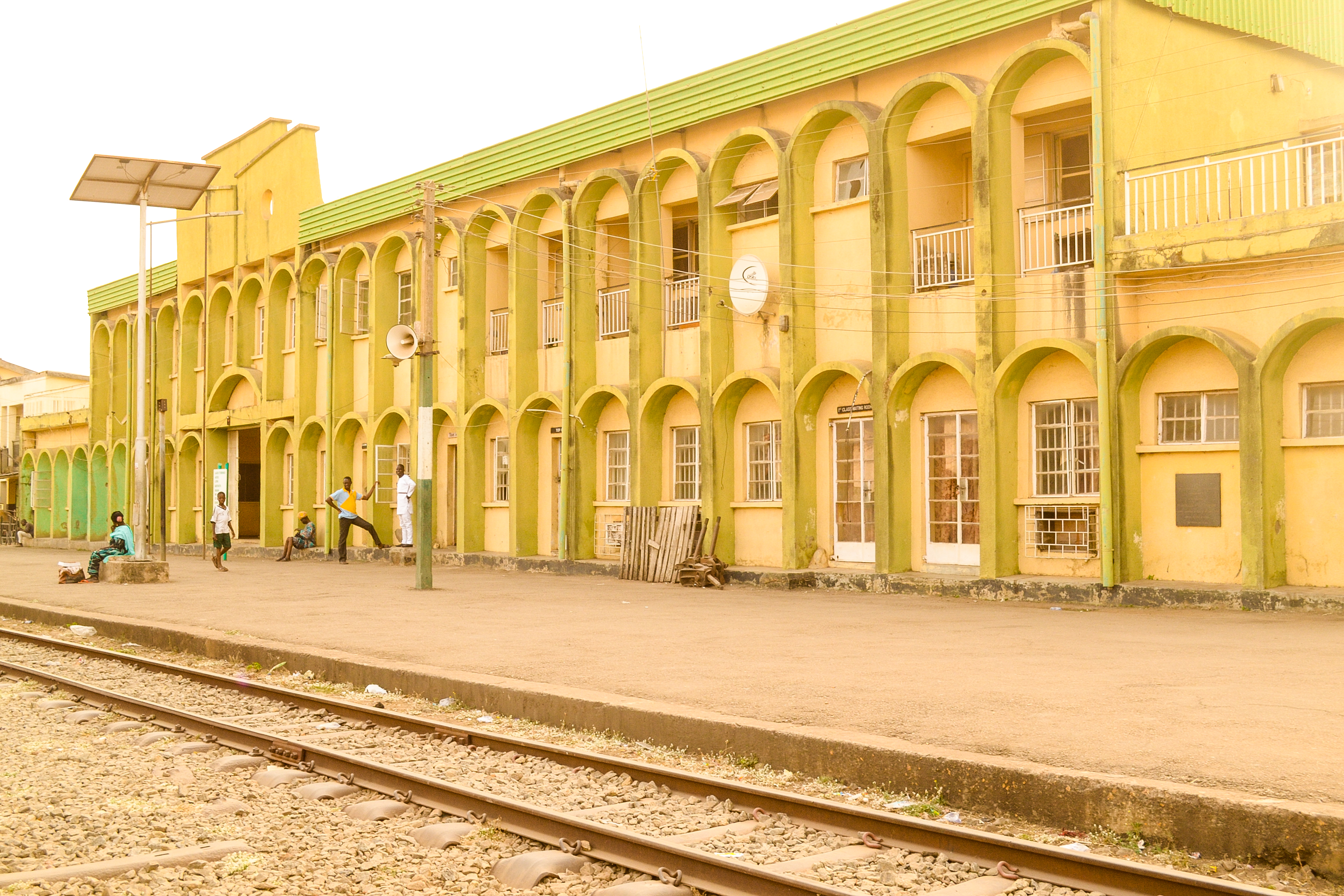 Ilorin Train Station, kwara state This is an image with the theme "Africa on the Move or Transport" from: Nigeria